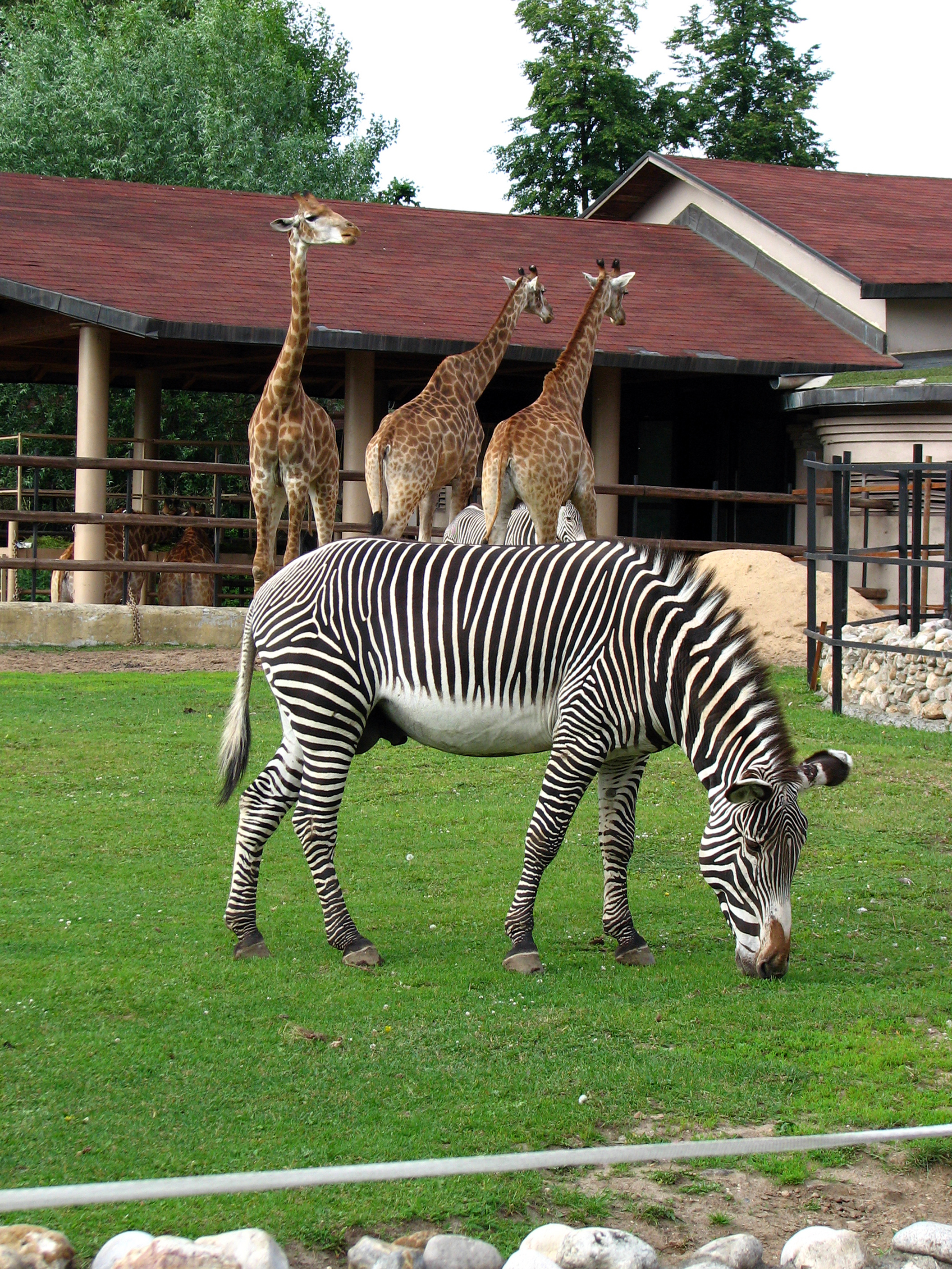 Moscow Zoo. Exposition «Hoofed animals of Africa». Giraffes and zebra (Equus grevyi)